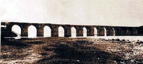 Tongji Bridge, Jinhua, Zhejiang Province, China. It's a stone arch bridge.